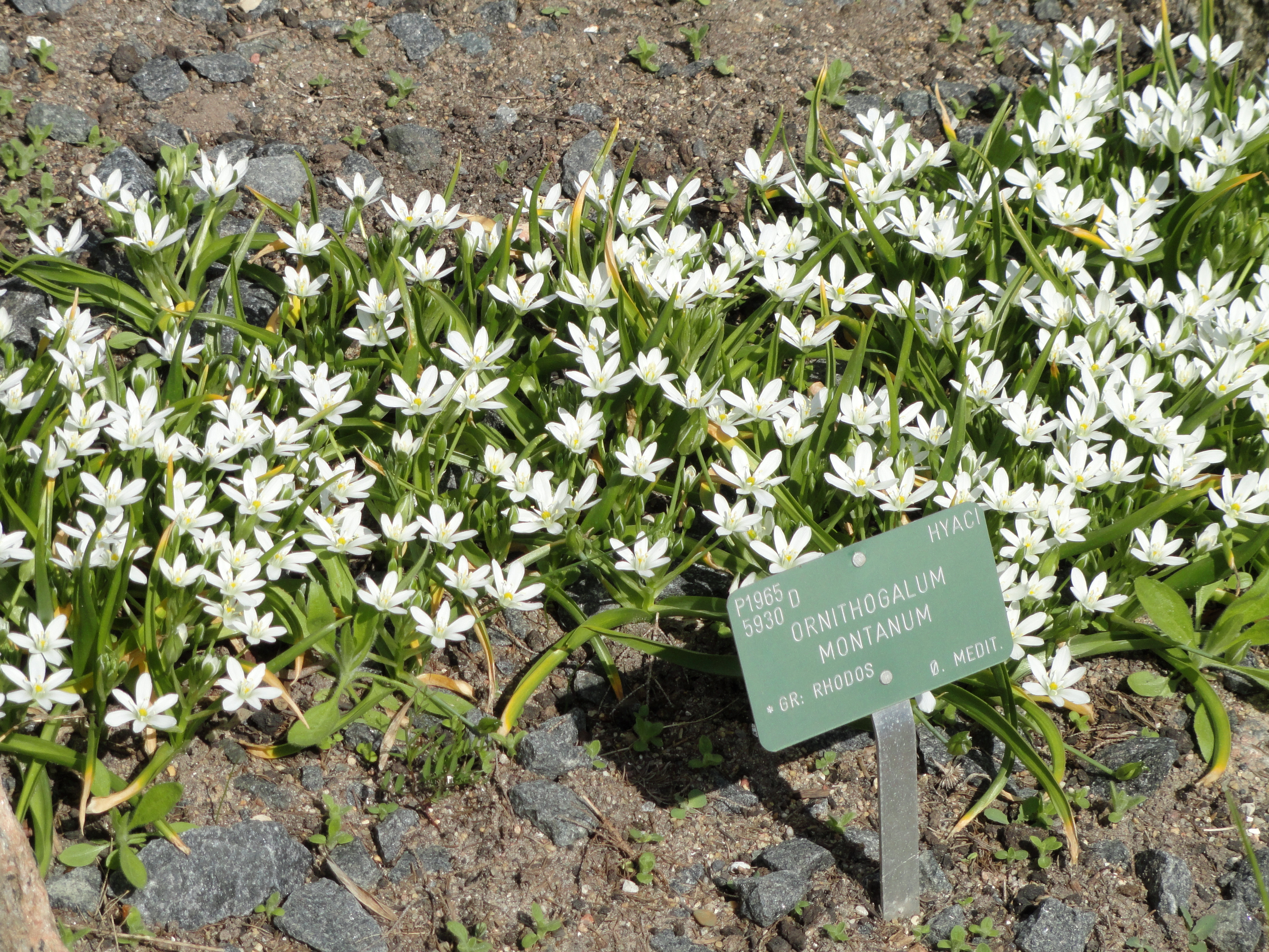 Botanical specimen in the University of Copenhagen Botanical Garden, Copenhagen, Denmark.